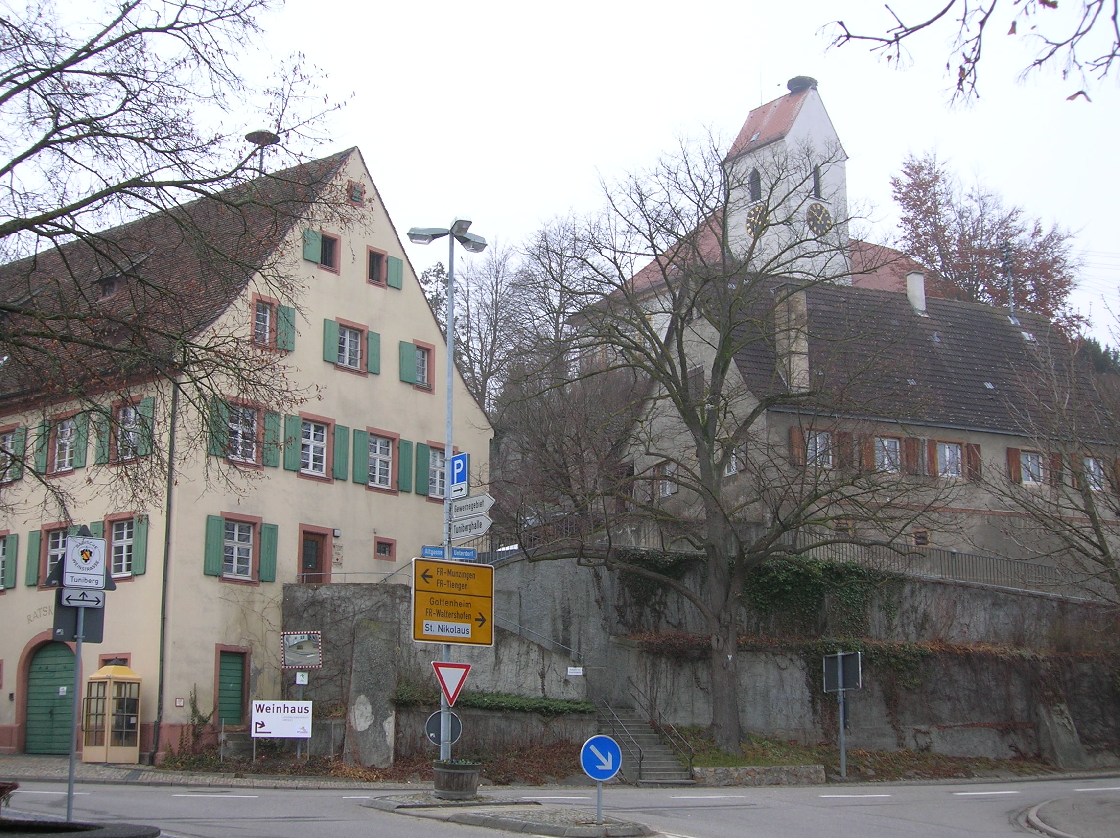 Town-hall and protestant church at Freiburg-Opfingen, both designed by Carl Friedrich Meerwein